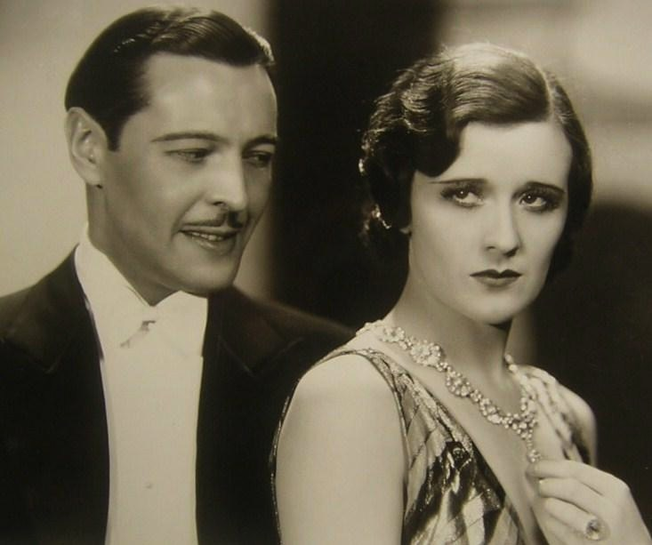 Ivan Lebedeff and Margaret Livingston in the film The Lady Refuses (1931) - publicity still (original image cropped : see source)